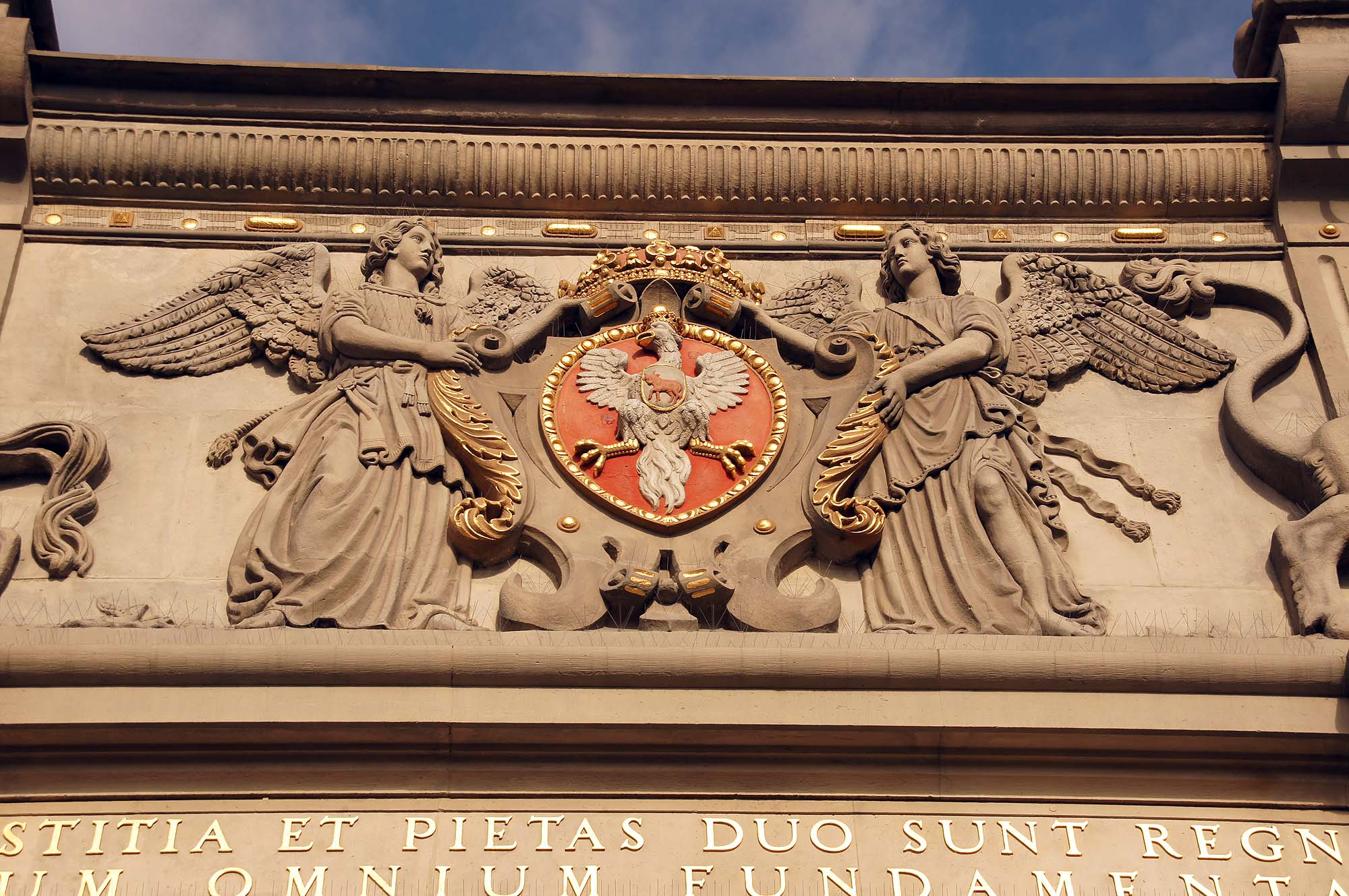 Gdańsk - a detail of the Highland Gate